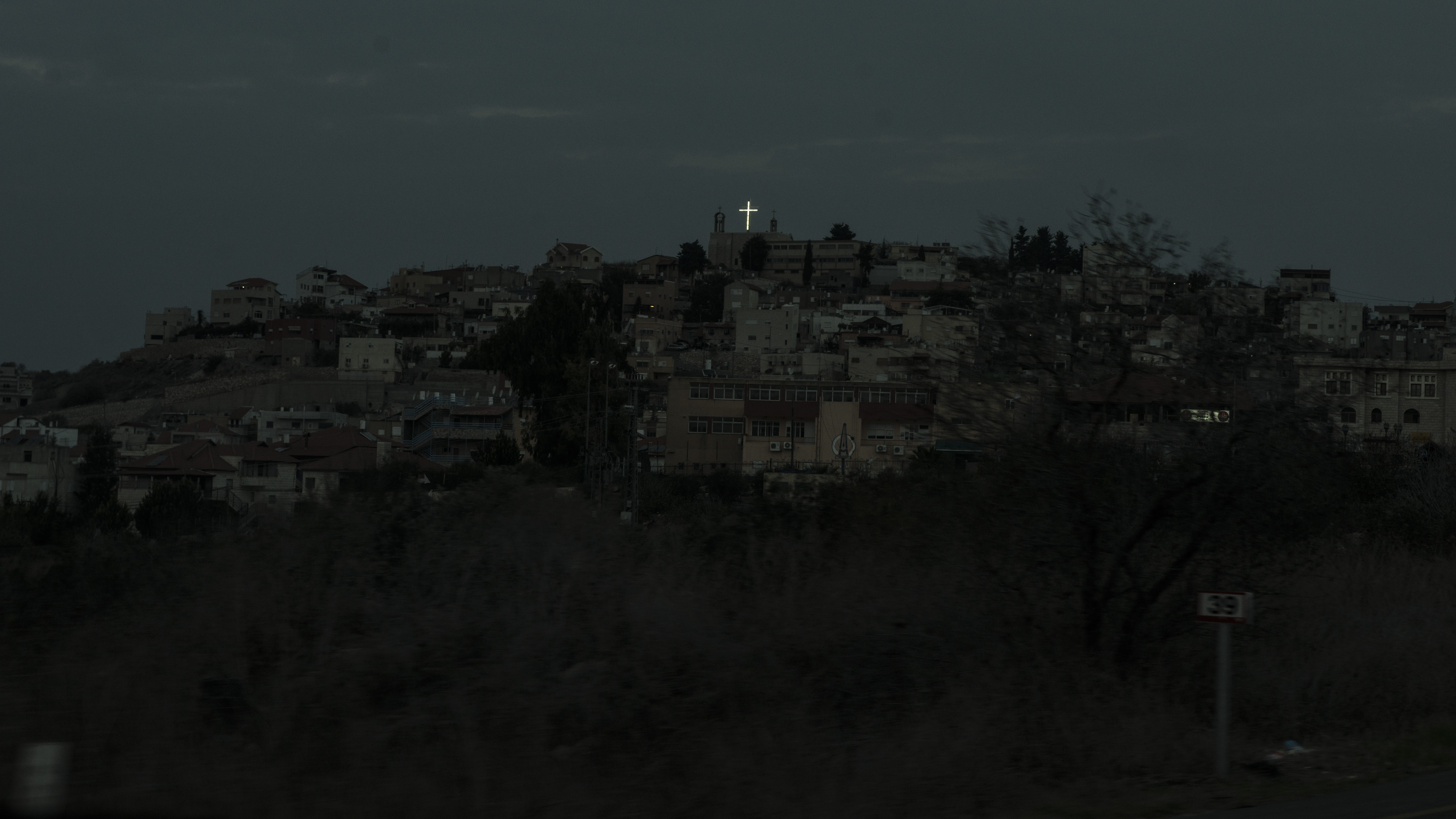 Town of Jish in Israel at night